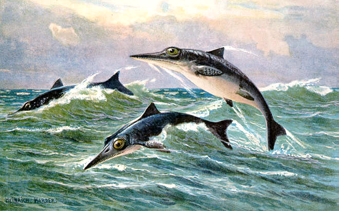 This Painting shows a ichthyosaur of an undetermined genus and was made to illustrate one card of a set of 30 collector cards from "Tiere der Urwelt" (Animals of the Prehistoric World). From the series Ia. The set was inscribed 1916.